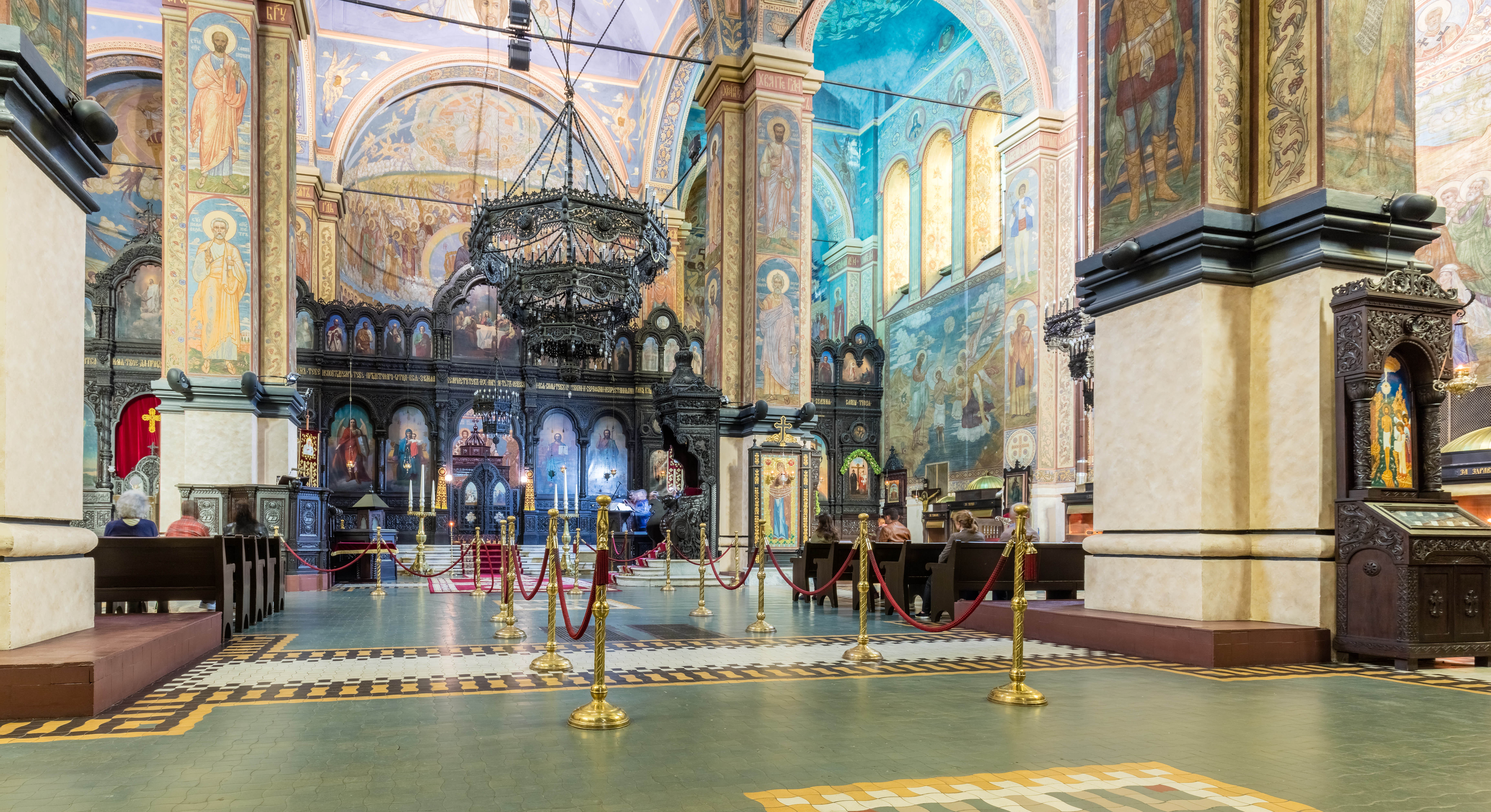 Dormition of the Theotokos Cathedral, Varna, Bulgaria